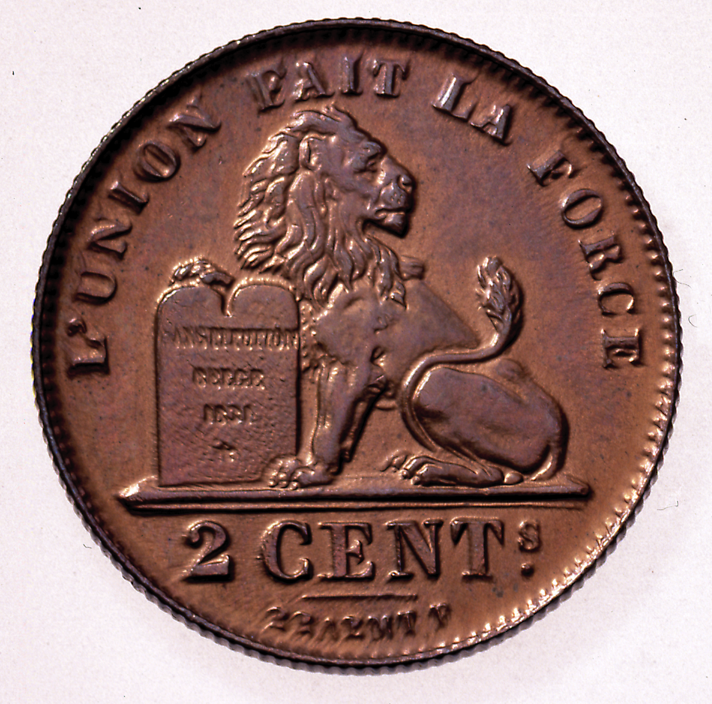 Belgian coin of 2 centimes (Albert I's monogram) in French - reverse